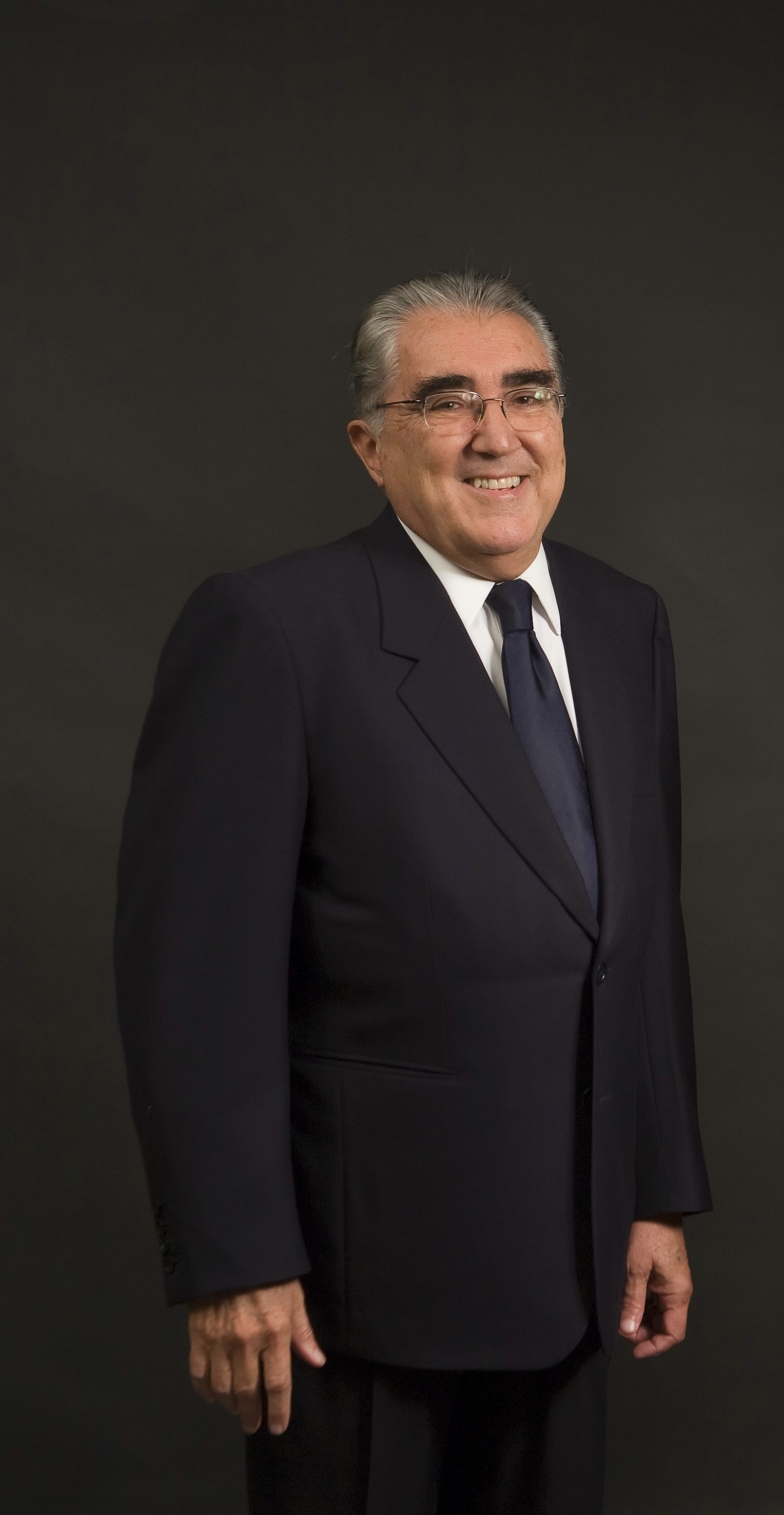 Segunda Foto Oficial Paulo Cunha